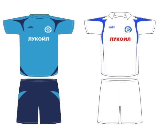 Football form Dinamo in 2011